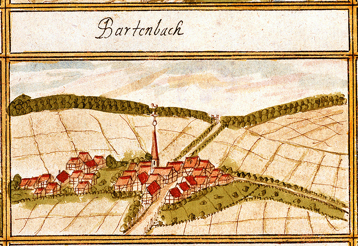 View of Bartenbach, Göppingen, from the forest register books created by Andreas Kieser